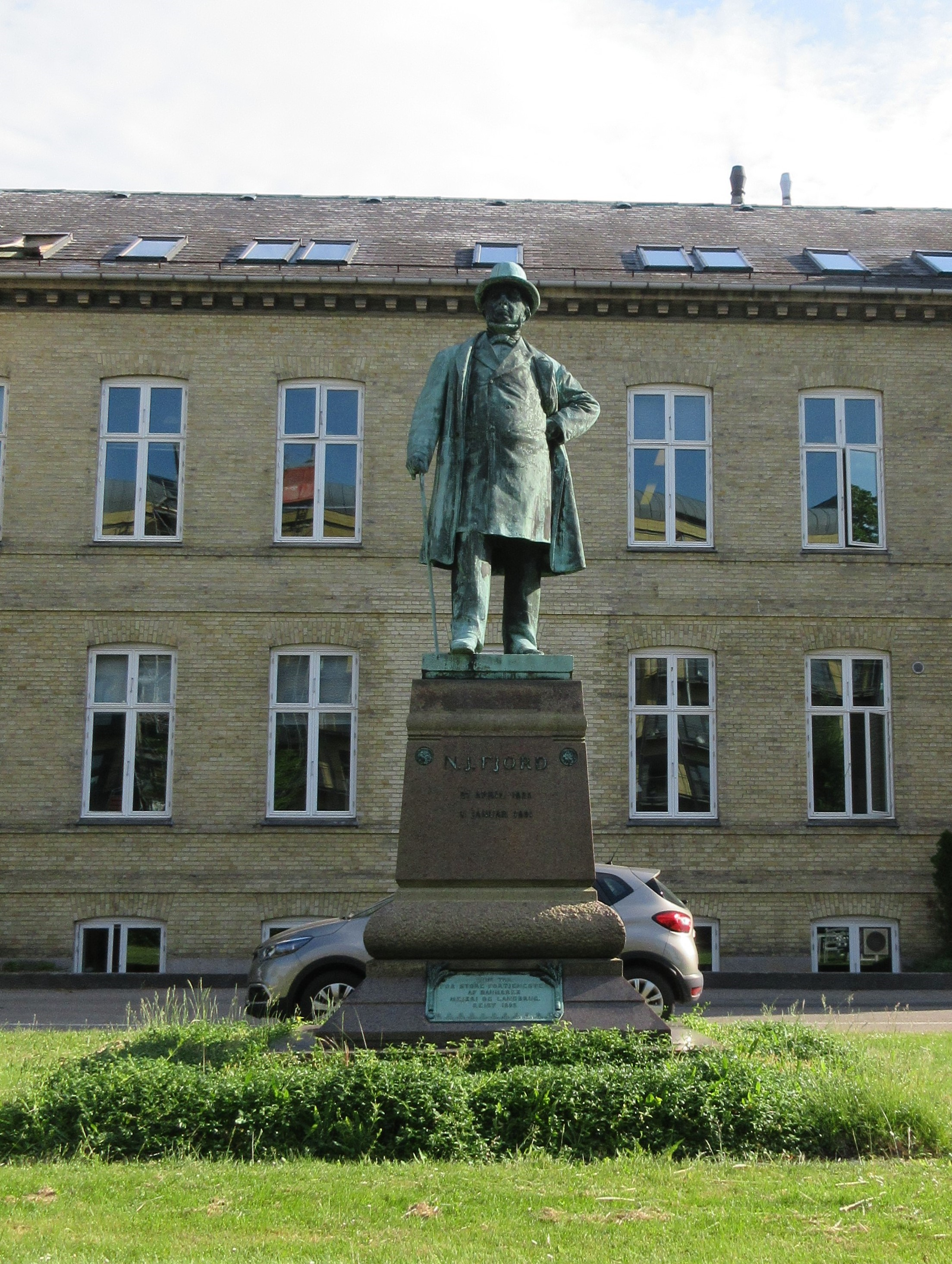 Statue of Niels Fjord by Aksel Hansen in front of Rolighedsvej 25 in Frederiksberg, Copenhagen, Denmark